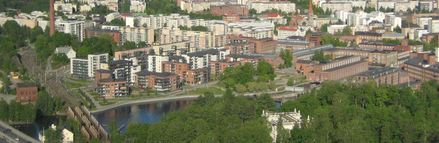 Tampella district in the north of Tampere City Center, Finland